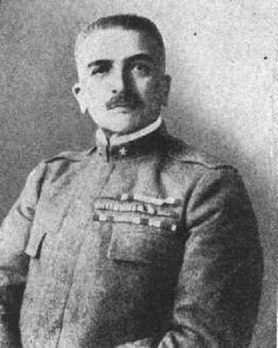 General Armando Diaz, Italian Chief of Staff